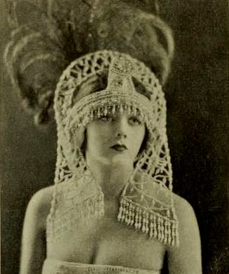 Barbara La Marr, on page 86 of the January 1922 Photoplay. The front of the headdress has a protrusion shaped like a cobra with its tongue sticking out.